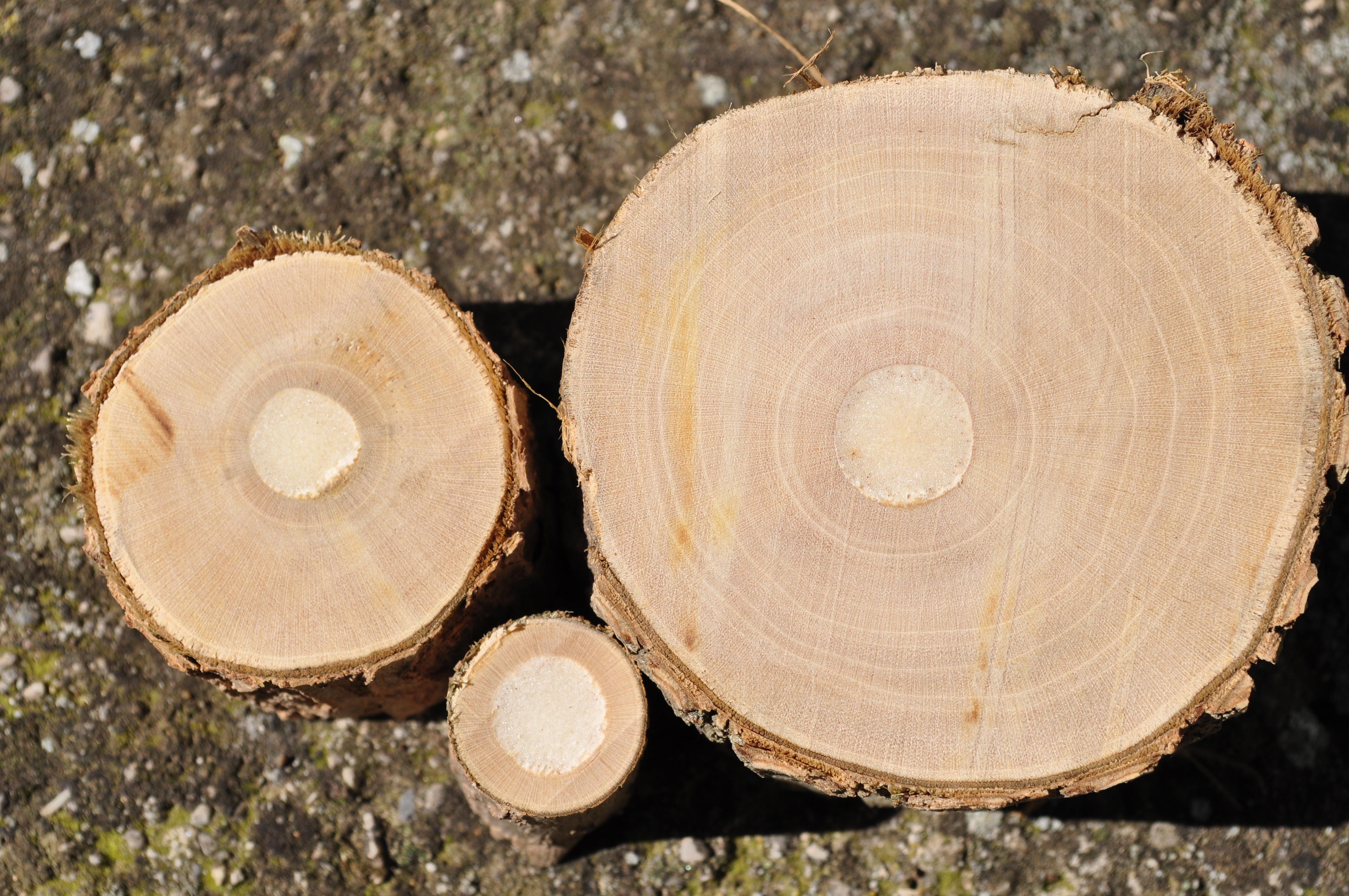 Black Elder, cross section